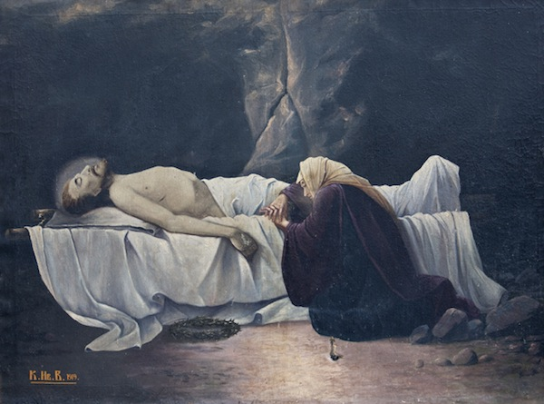 Lamentation of Christ